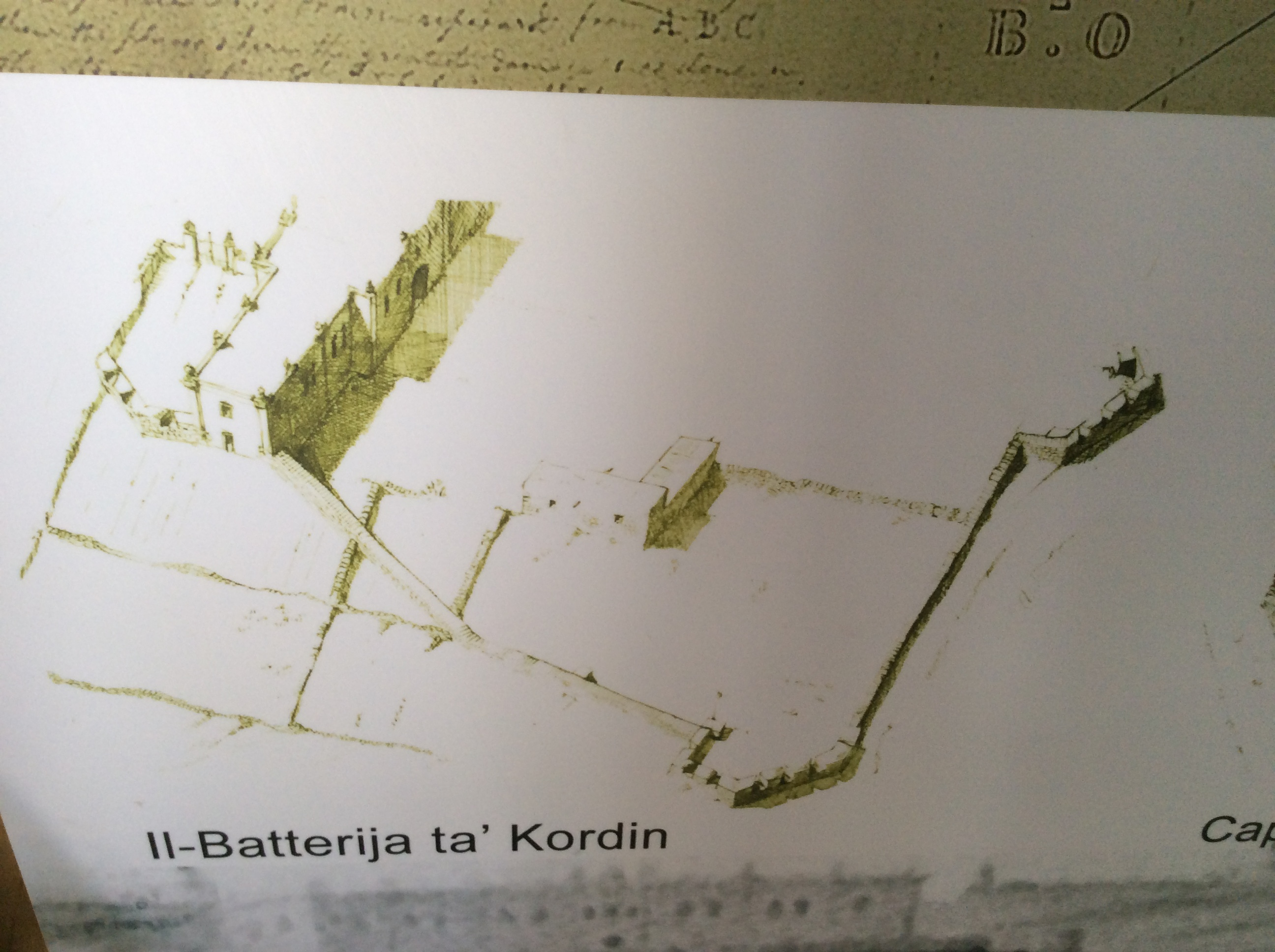 Valletta